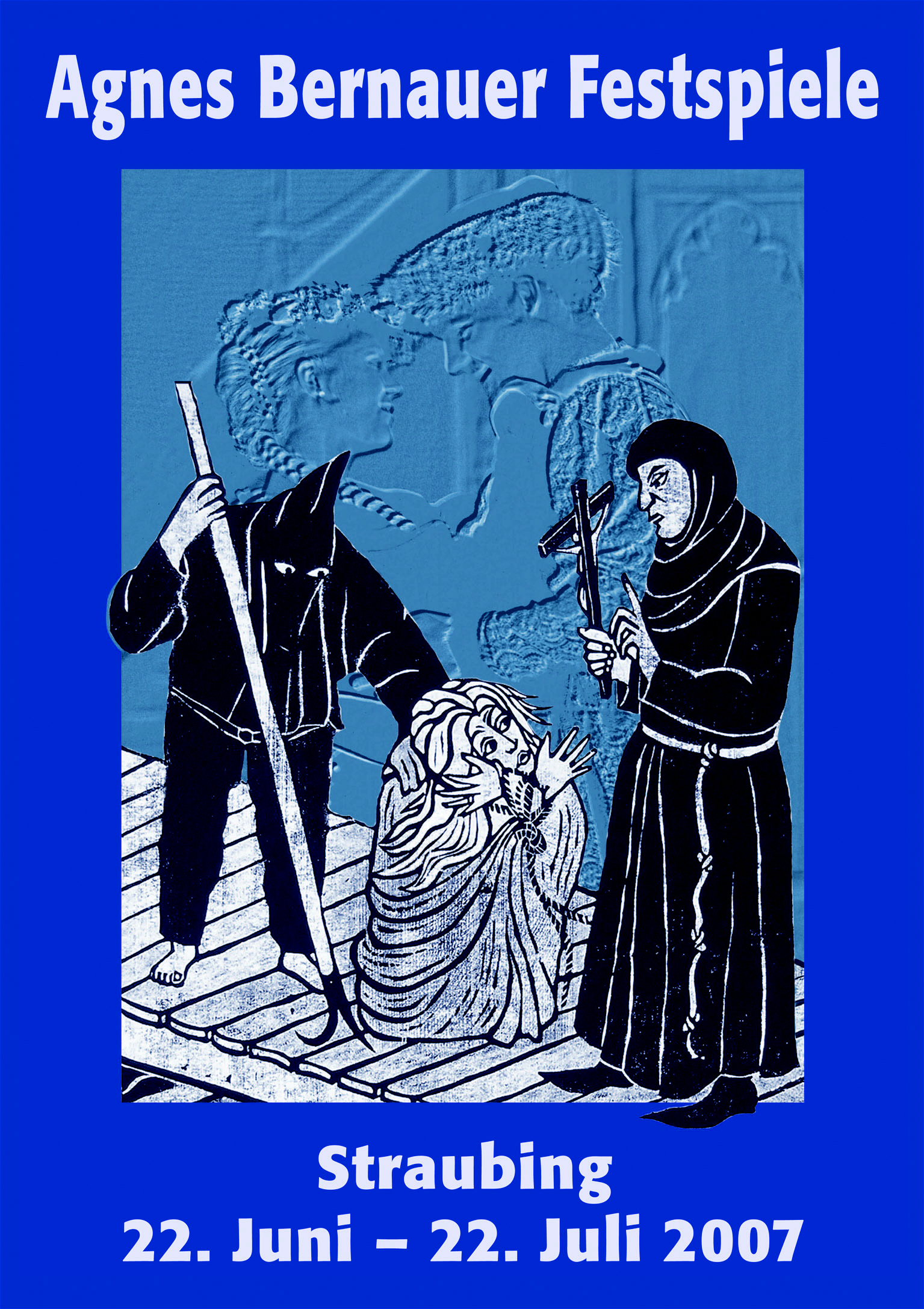 Poster for the 2007 Agnes-Bernauer-Festspiele